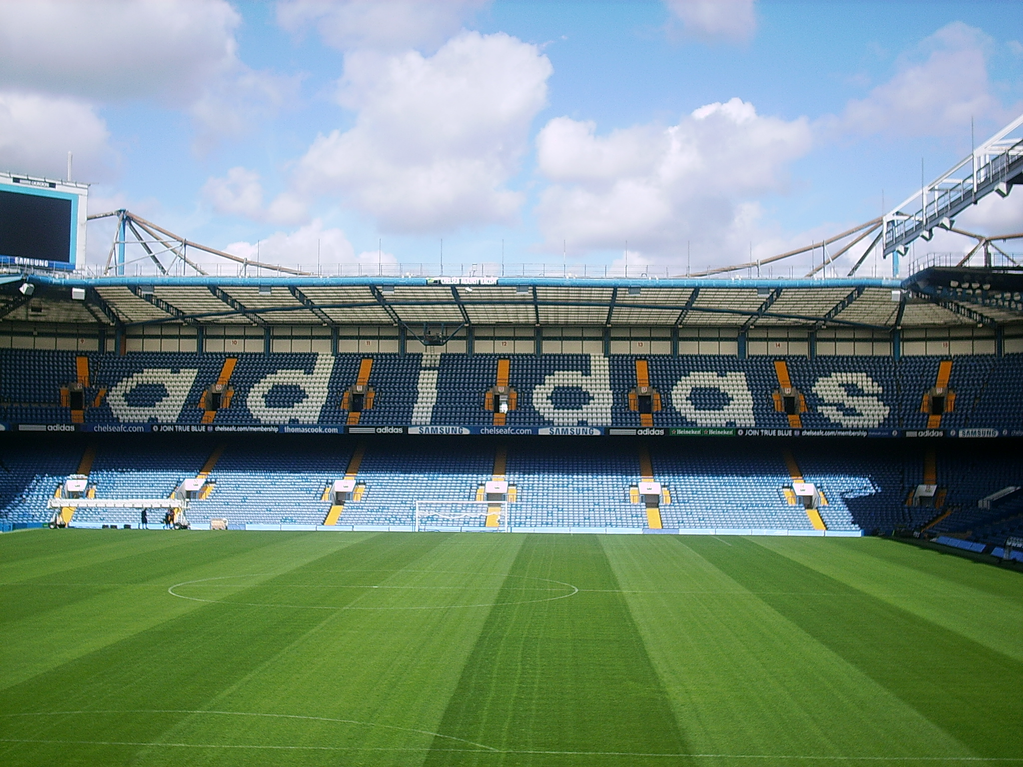 I took this picture myself in August 2007.